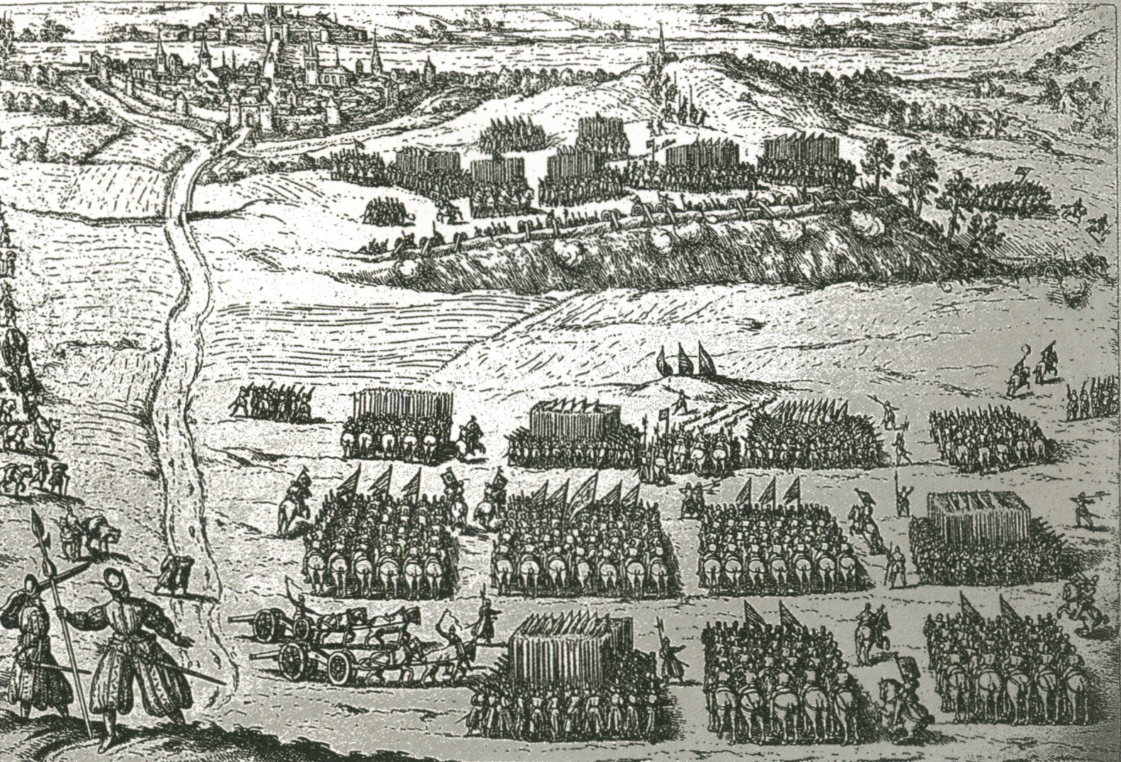 View of the so-called Battle of Lanakerveld near Maastricht, a near confrontation between the Spanish army led by the Duke of Parma and the army of the Dutch rebels lead by Prince William of Orange.